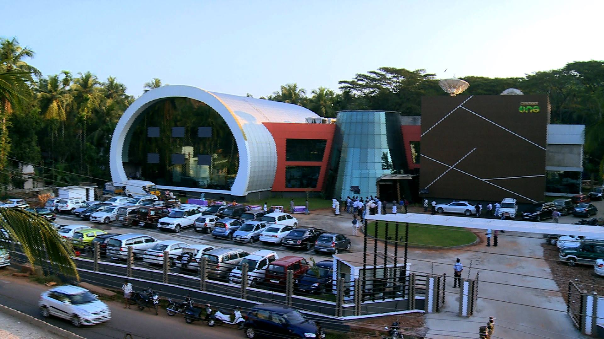 This the MediaOne TV Headquarters And Studio located in Cali cut